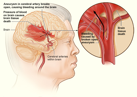 The illustration shows how a hemorrhagic stroke can occur in the brain. An aneurysm in a cerebral artery breaks open, which causes bleeding in the brain. The pressure of the blood causes brain tissue death.